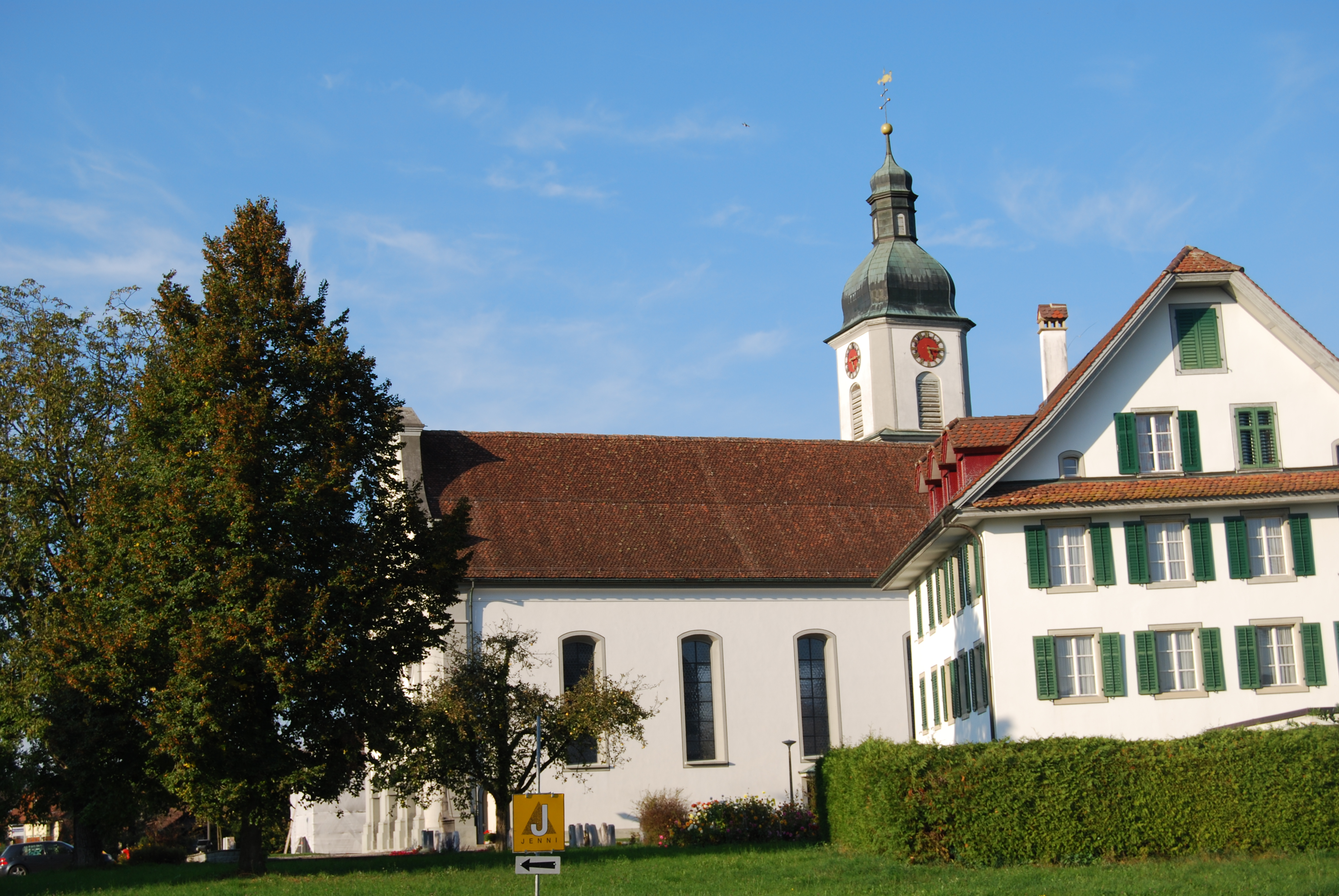 Church of Dietwil, canton of Aargau, SwitzerlandEsperanto: Preĝejo de Dietwil, Kantono Argovio, Svislando